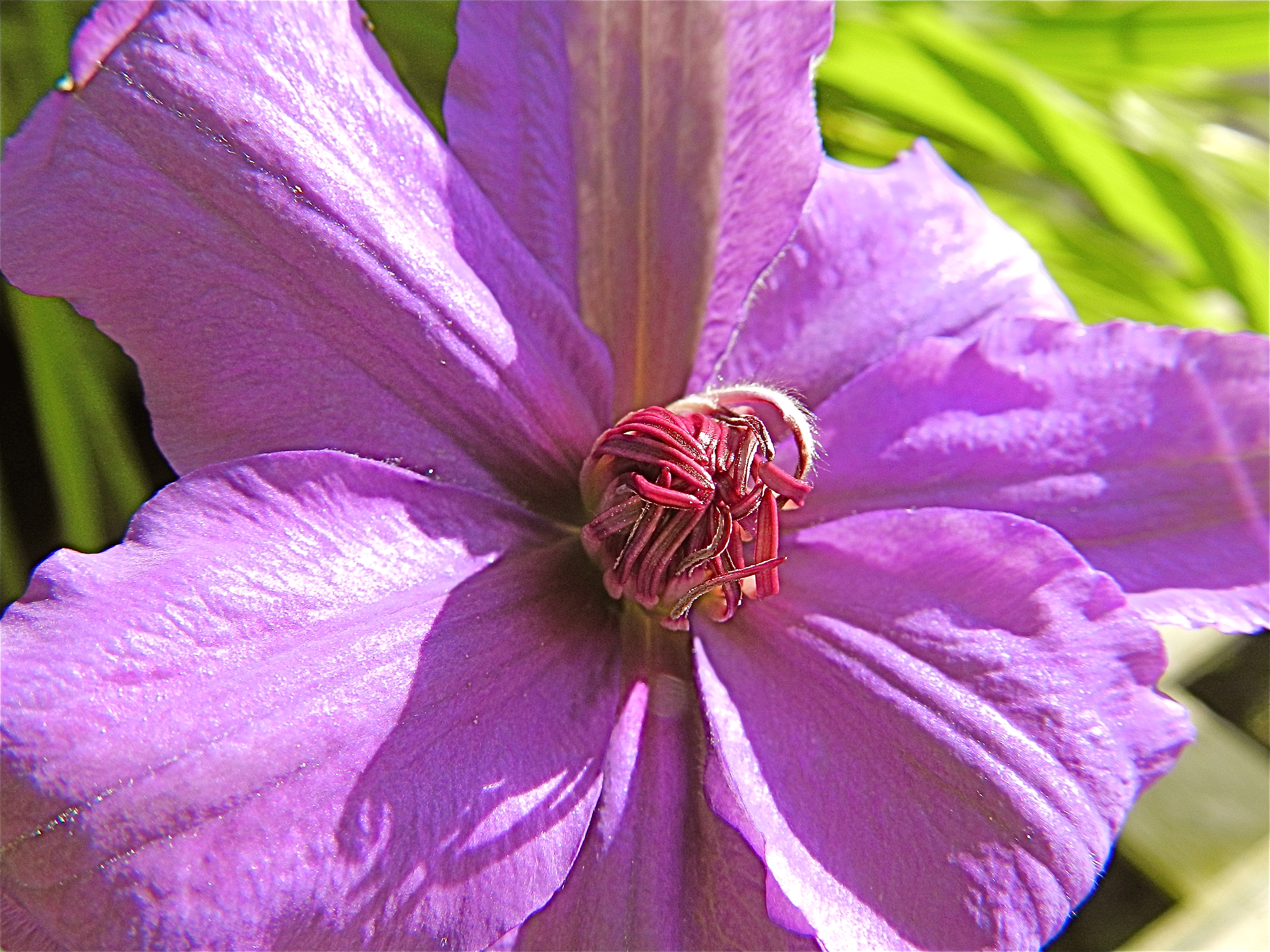 Back garden, new today!